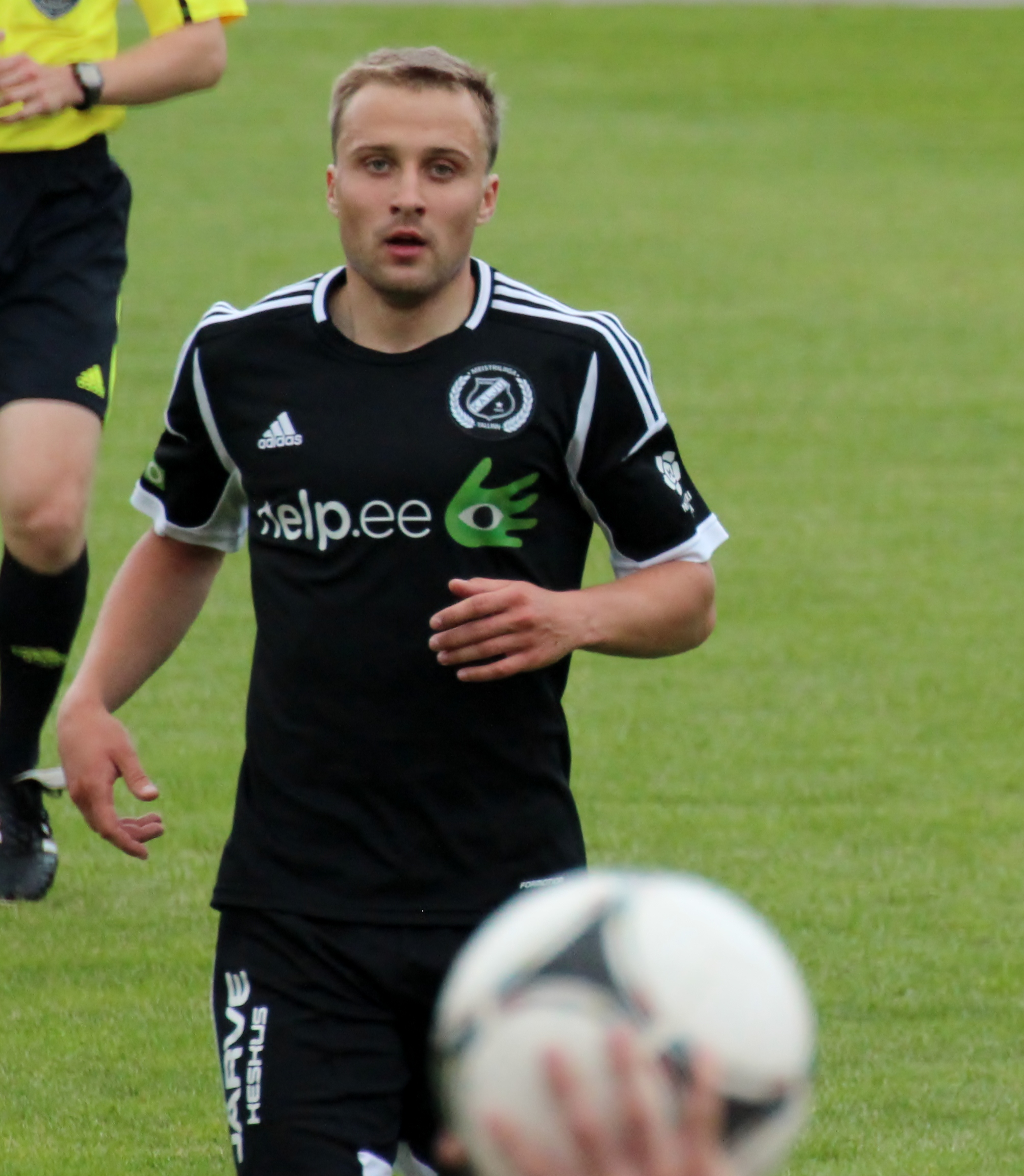 Estonian football player Eino Puri playing for Nõmme JK Kalju